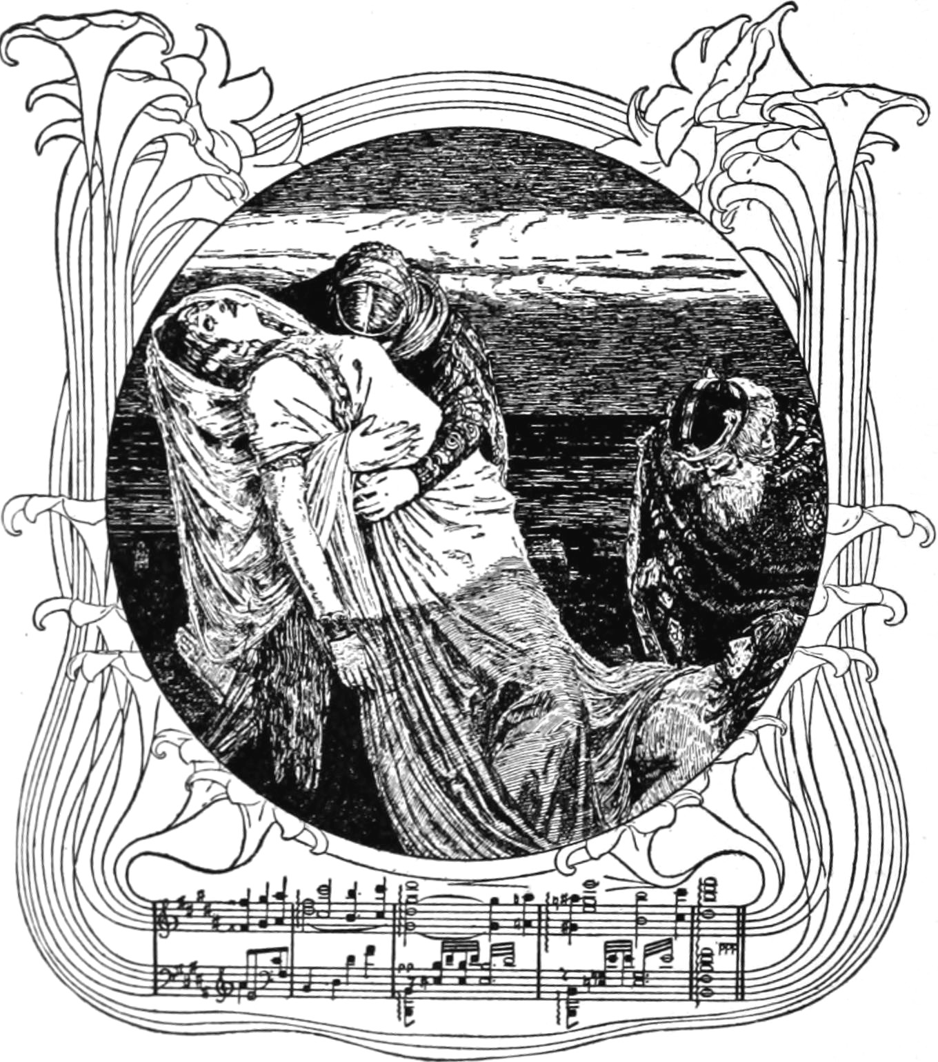 Wagner - Tristan und Isolde - Isolde's Liebestod - Panel by Stassen Title: The Victrola book of the opera : stories of one hundred and twenty operas with seven-hundred illustrations and descriptions of twelve-hundred Victor opera records Year: 1917 (1910s) Authors: Victor Talking Machine Company Rous, Samuel Holland Subjects: Operas Publisher: Camden, N.J. : Victor Talking Machine Co. Text Appearing Before Image: of touching sadness and inexpressible Then she sings this wondrous death song, so fulsweetness, and expires upon his body. Isoldes Liebestod (Isoldes Love-Death) By Johanna Gadski, (In German) 88058 By Victor Herberts Orchestra (Double-faced—See below) 55041By La Scala Orchestra (Double-faced—See below) 68210 Text Appearing After Image: PANEL BY STASSE* ISOLDE S LIEBESTOD 12-inch, $3.0012-inch, 1.5012-inch, 1.25 Isolde (unconscious of all around her,turning her eyes with rising inspira-tion on Tristans body):Mild and softly he is smiling;How his eyelids sweetly open!See, oh comrades, see you notHow he beameth ever brighter—How he rises ever radiantSteeped in starlight, borne above?See you not how his heartWith lion zest, calmly happyBeats in his breast?From his lips in Heavenly rest,Sweetest breath he softly sends.Harken, friends!Hear and feel ye not?Is it I alone am hearingStrains so tender and endearing?Passion swelling, all things telling.Gently bounding, from him sounding,In me pushes, upward rushesTrumpet tone that round me gushes.Brighter growing, oer me flowing,Are these breezes airy pillows?Are they balmy beauteous billows?How they rise and gleam and glisten!Shall I breathe them? Shall I listen?Shall I sip them, dive within them?To my panting breathing win them?In the breezes around, in the har-mony sound,I